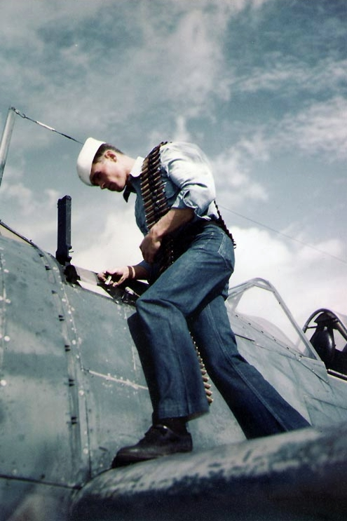 A U.S. Navy aviation ordnanceman loads the fuselage .50 caliber machineguns of a Brewster F2A Buffalo fighter with ammunition, at Naval Air Station Miami, Florida (USA), 9 April 1943. The F2A was then in use as a training aircraft. Note 3:1 ratio of black-tipped armor-piercing ammunition to red-tipped tracer ammunition.